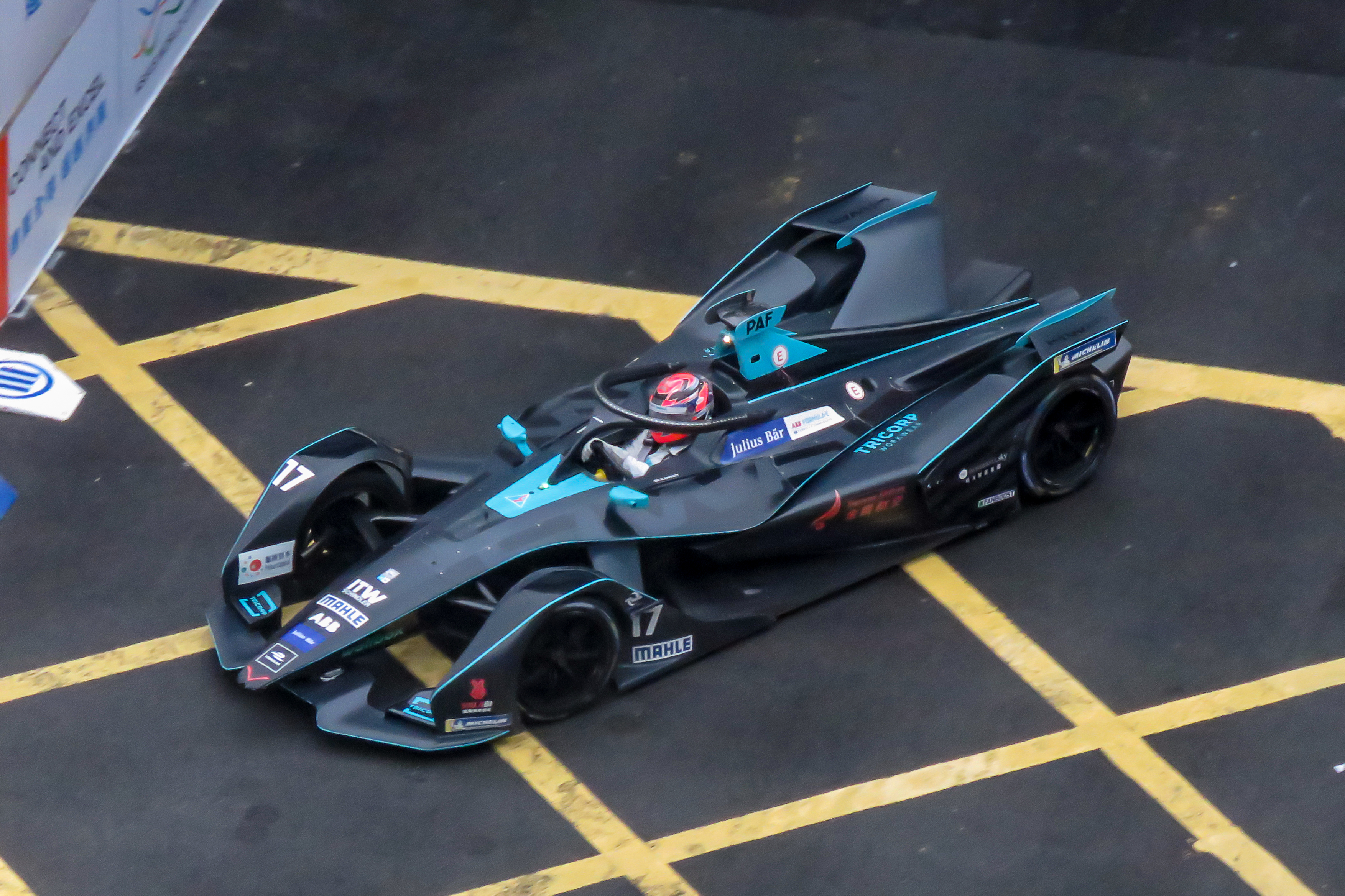 Base: HWA Racelab.